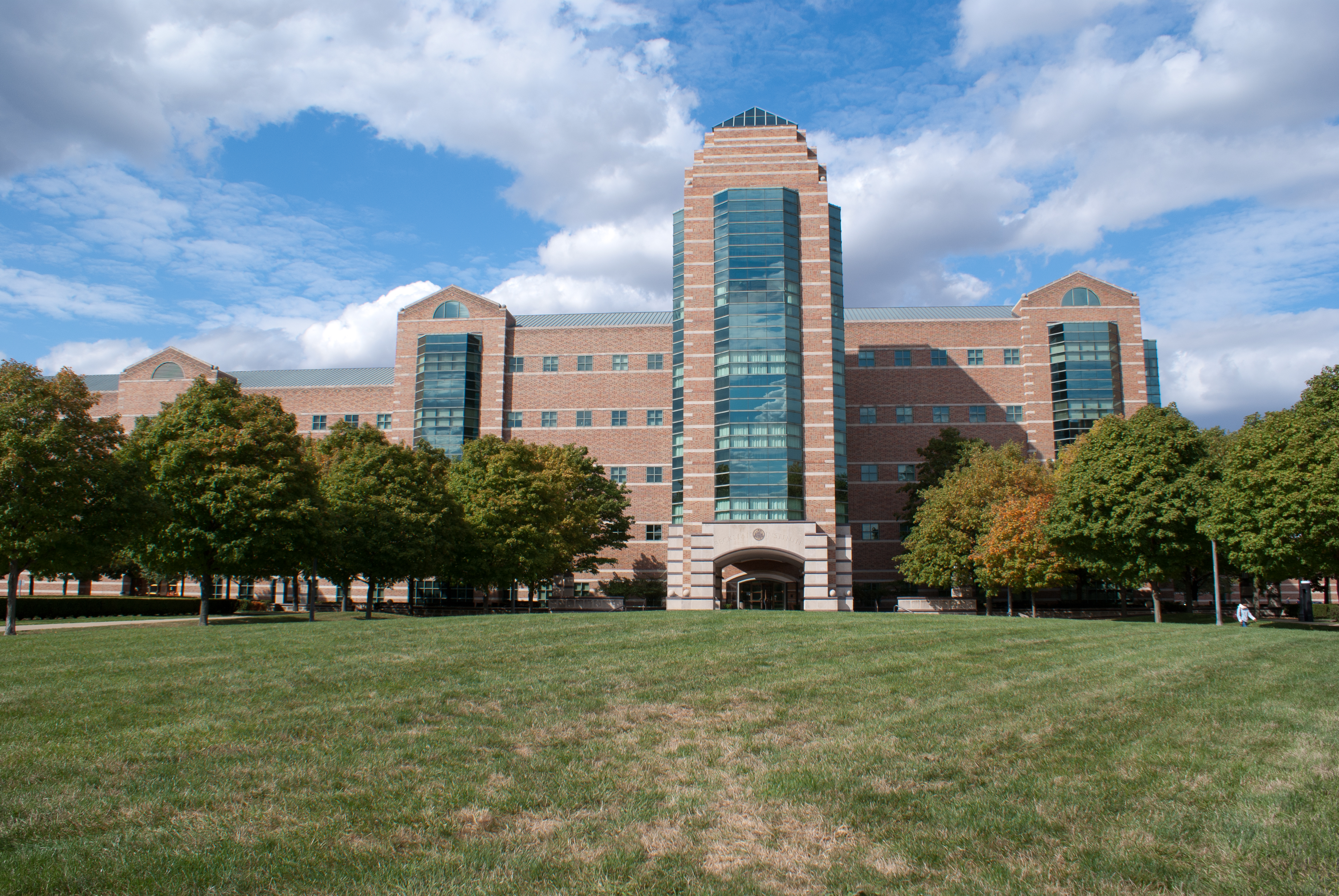 A view of the Beckman Institute from the south. It is the northern-most building on the Beckman Quad at the University of Illinois